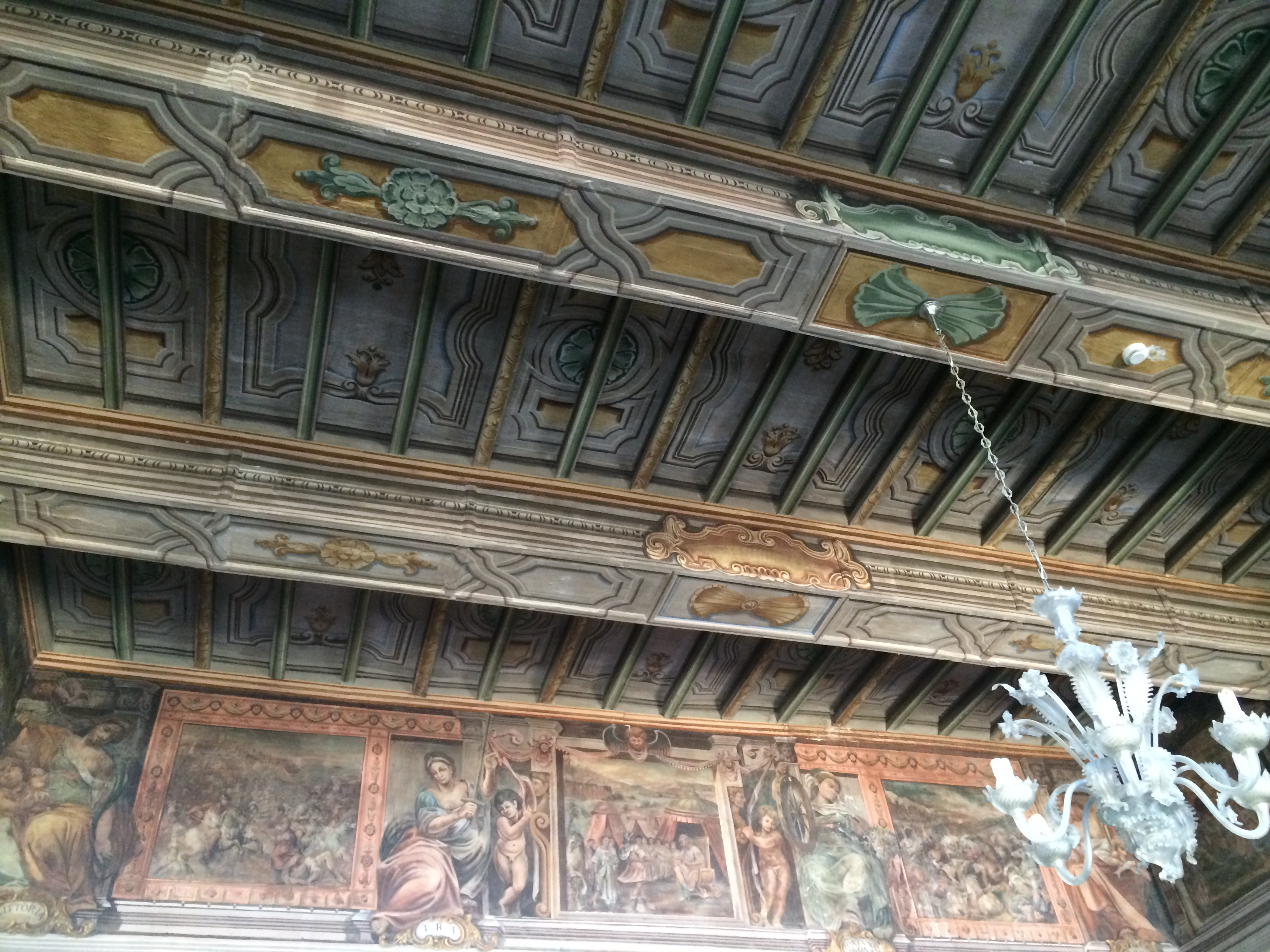 Decoration of a room in the history of art Department. Perugia, Palazzo Manzoni